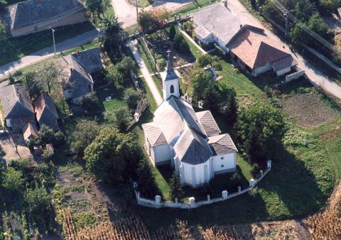 Mezőzombor, Hungary, aerialphotography